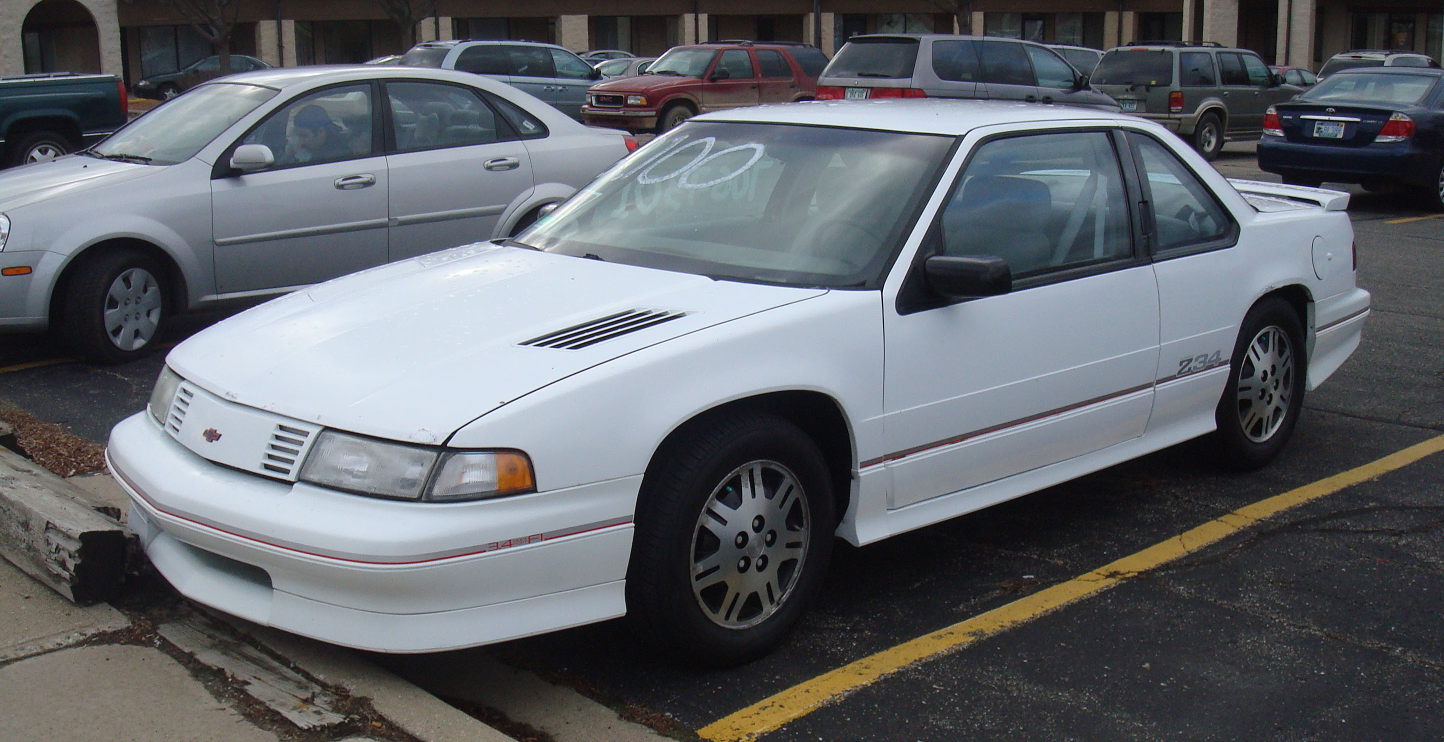 Chevrolet Lumina Z34 photographed in Lansing, Michigan.